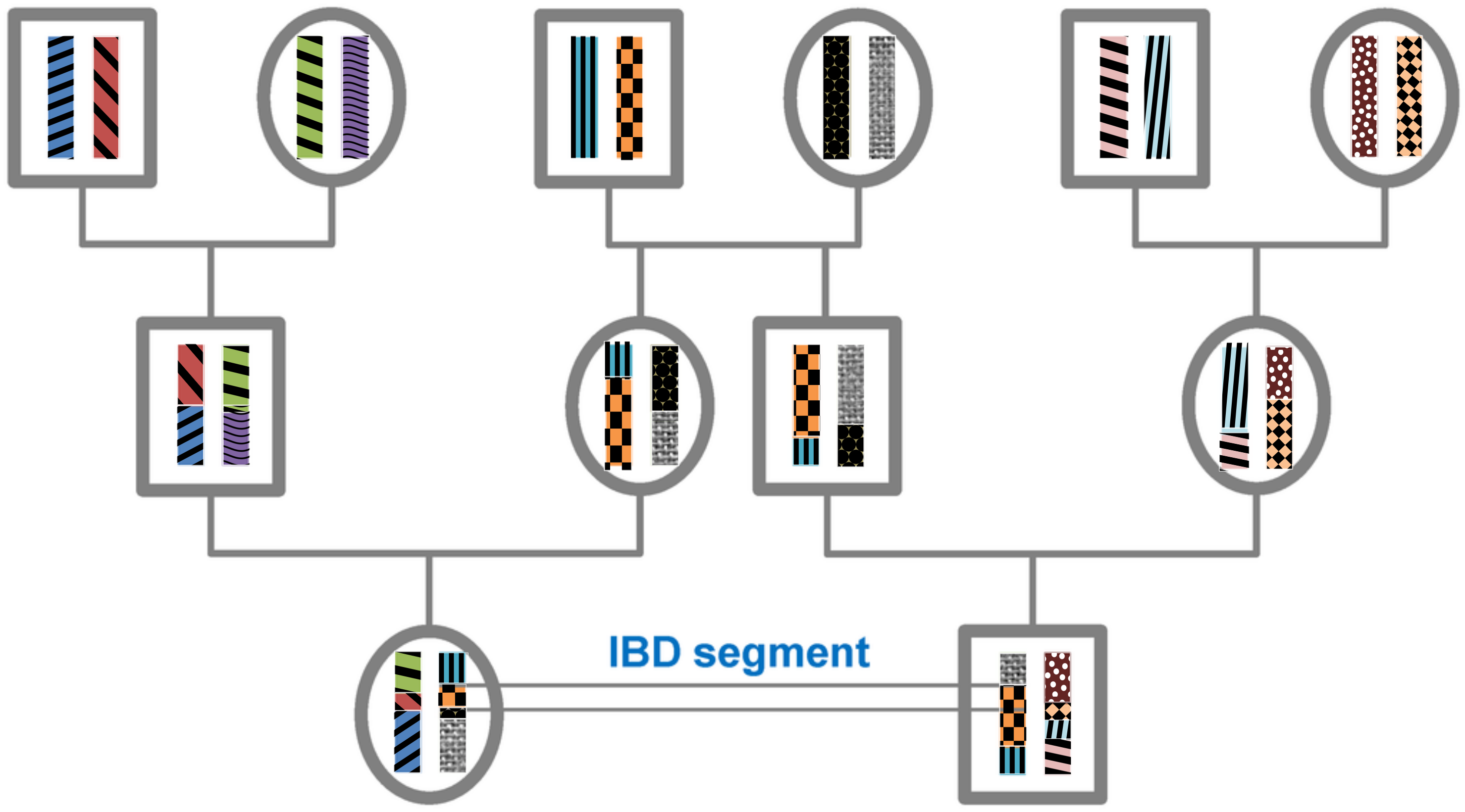 The original image was uploaded by User:Gklambauer. I found it was not color-blind friendly. This is my version to solve this issue